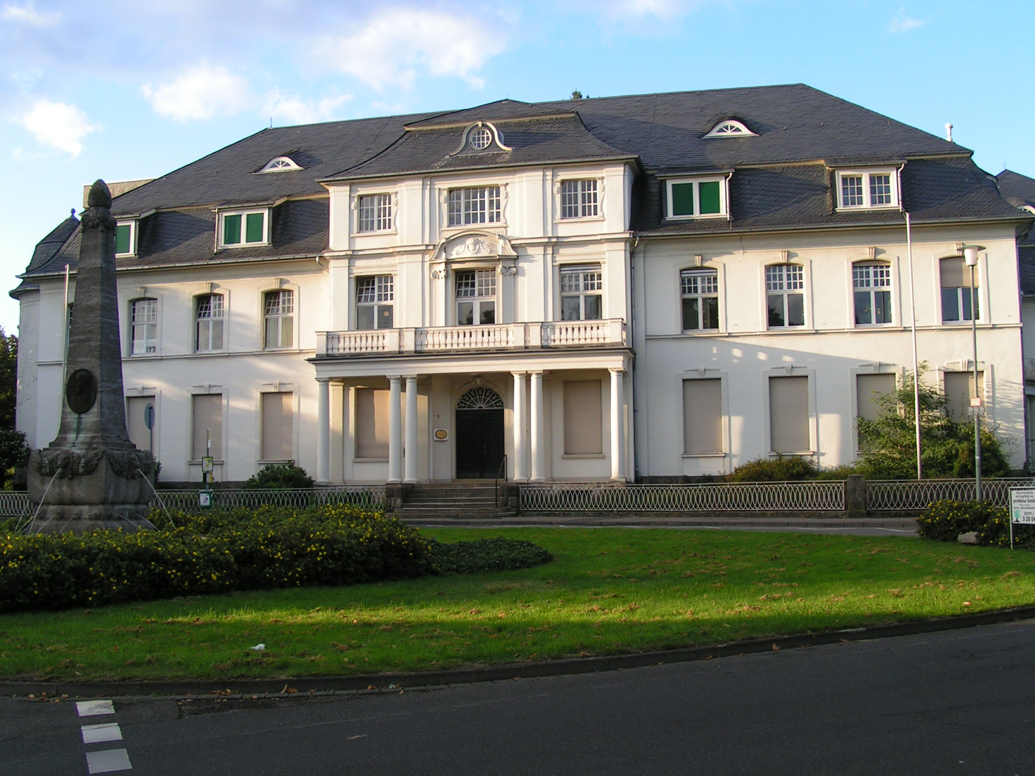 Former Landratsamt (district administration building) of the former Rhein-Wupper-Kreis (Rhine-Wupper-district) in Opladen. Now town archive of Leverkusen.